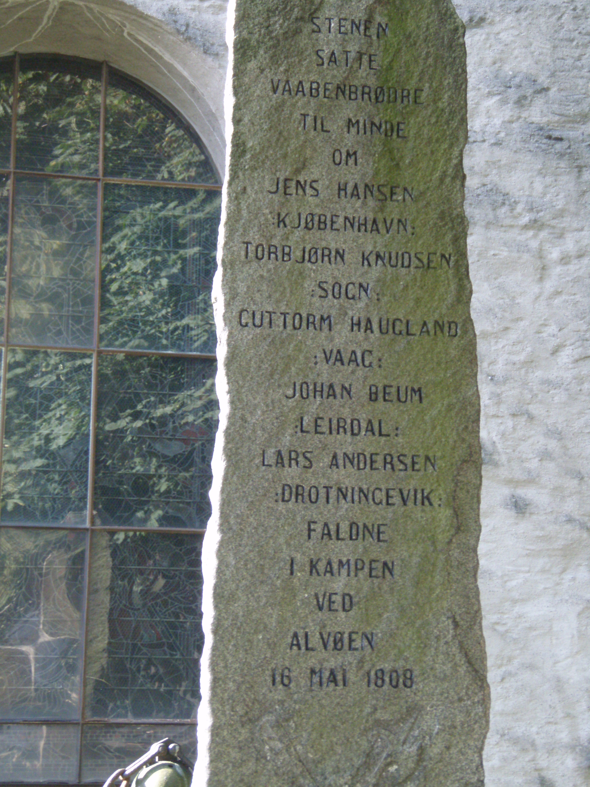 Memorial stone of a happening in 1808, in a public square in Bergen. Text giving names of dead heroes.